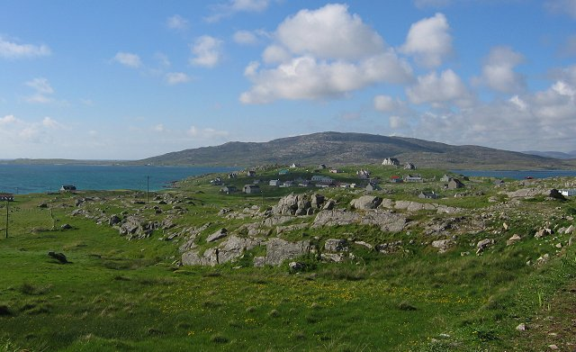 Eriskay. From the road on the flanks of Beinn Sciathan, overlooking the main settlement and across to Easabhal on South Uist.